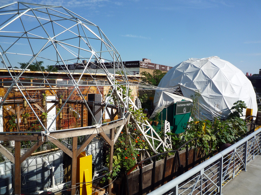 Waterpod (2009) was a public artwork by artist Mary Mattingly that converted a mobile barge into a city-sanctioned public park where volunteers lived and worked to create a self-sufficient ecosystem.